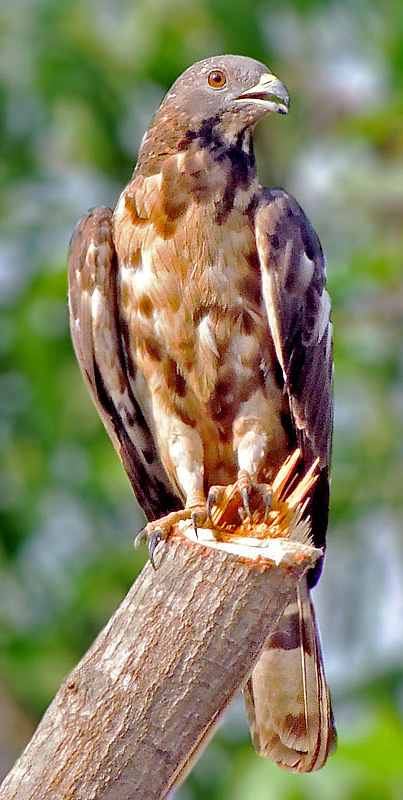 Oriental Honey Buzzard From Mangaon, Maharashtra, India